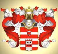 Coat of Arms of Hmetevsky family